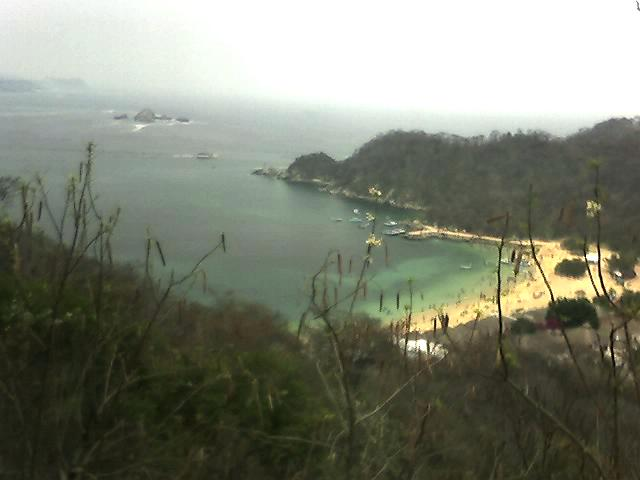 La Entrega Beach, Huatulco, Oaxaca state, México.